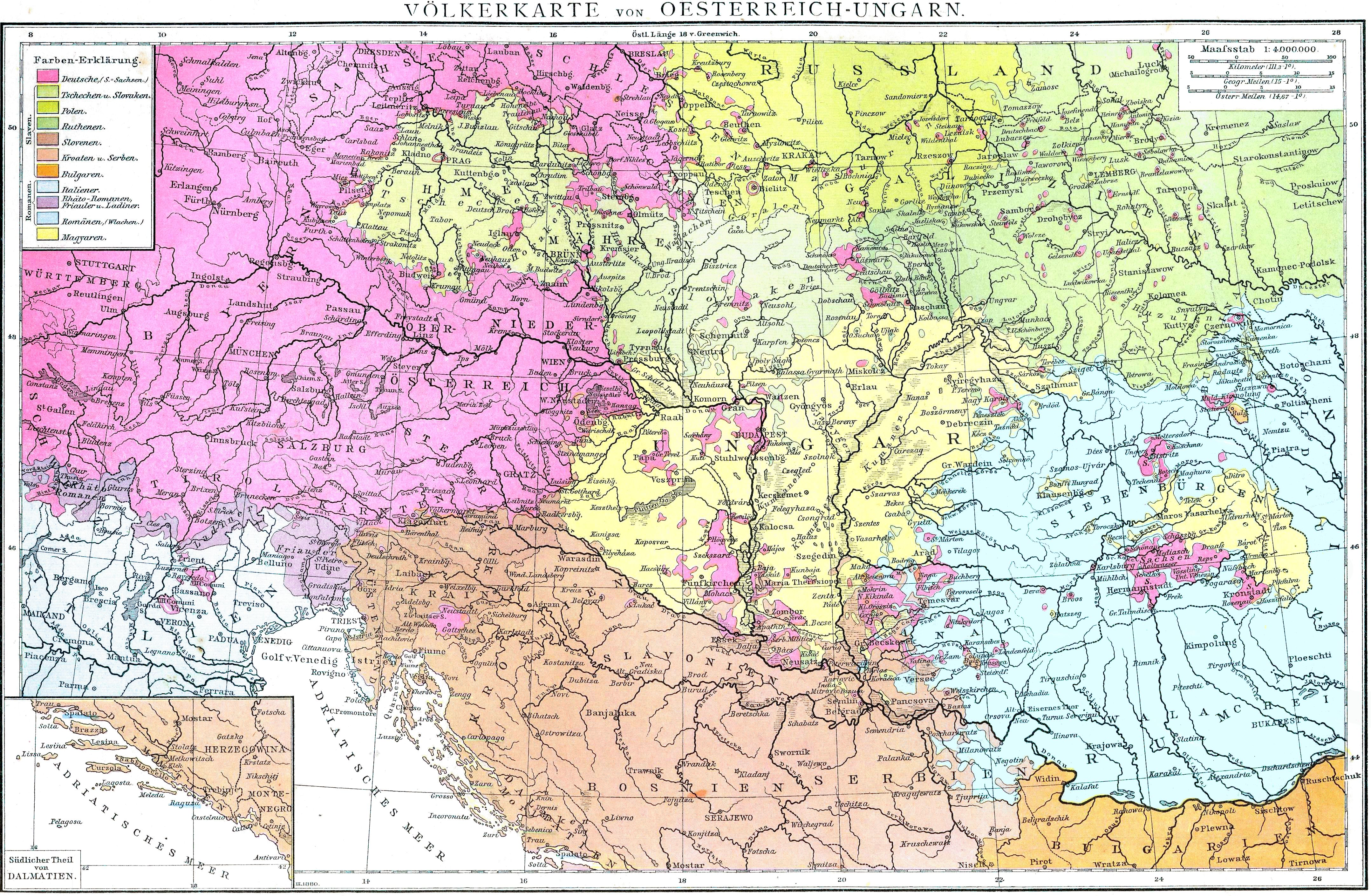 Ethnographic map of Austria-Hungary (census 1880). See also the English version.